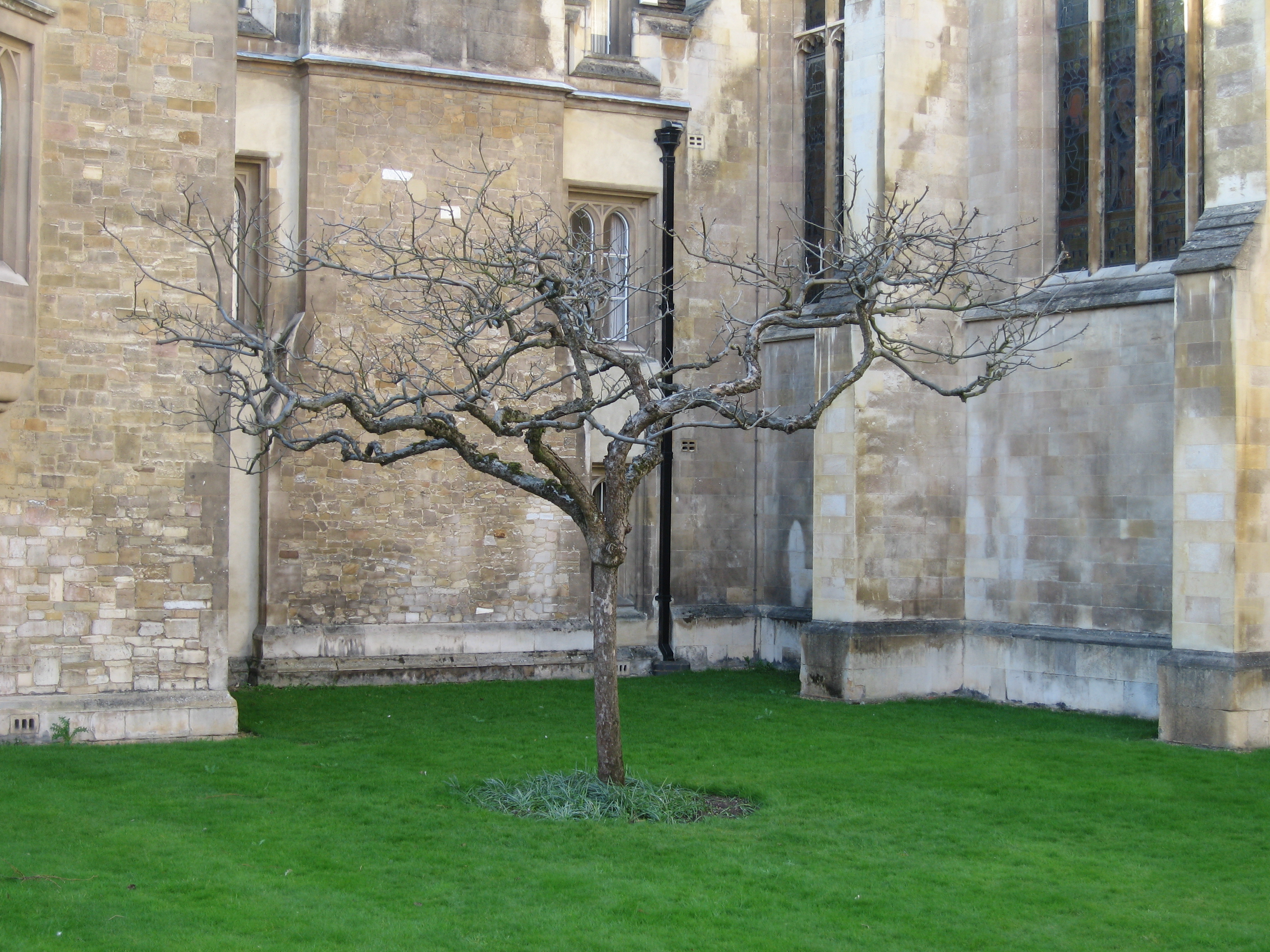 Supposedly Isaac Newton's apple tree, or a descendant thereof. In front of Trinity College, to the right of Great Gate.